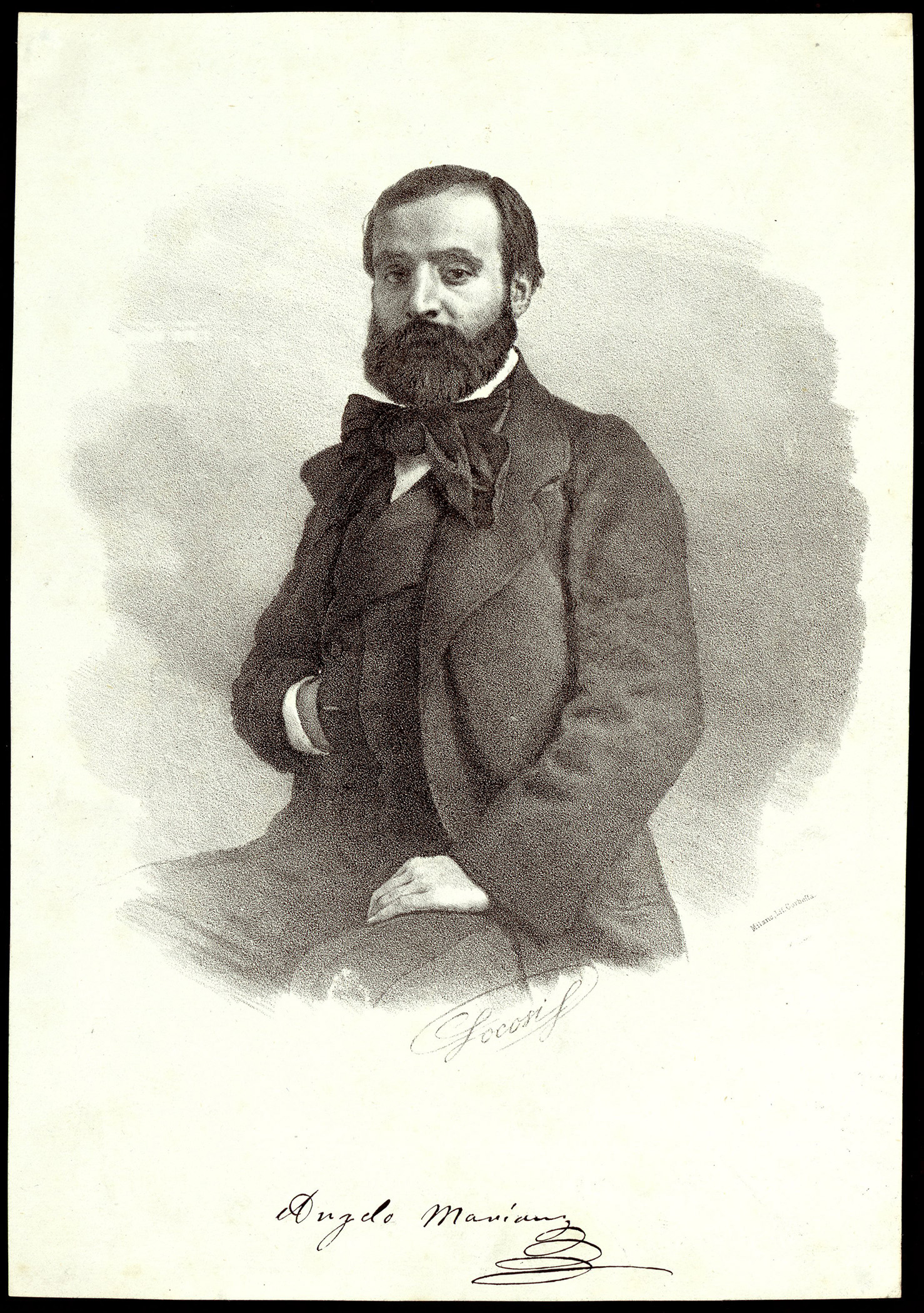 Portrait of Angelo Mariani, composer (1821-1873), before 1862.